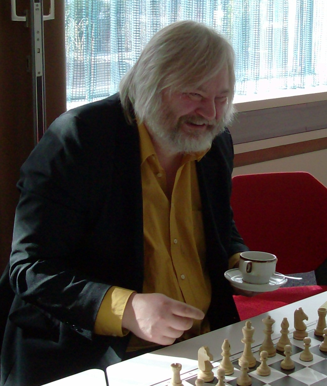 Arthur Jussupow, chess grandmaster